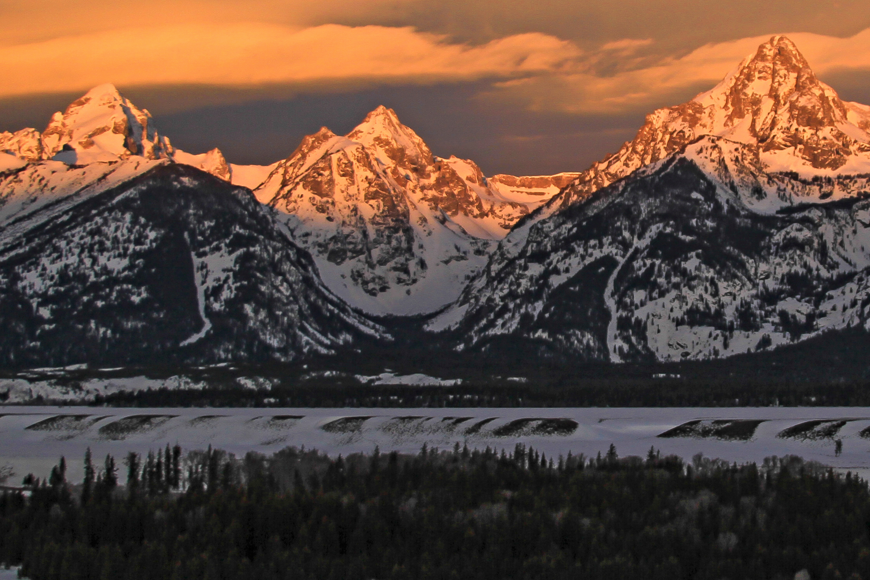 Mount Wister of Teton Range